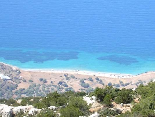 Agios Minas beach in Desfina, Fokida, Greece